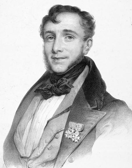 German pianist and composer Friedrich Kalkbrenner (1785-1849) by Charles Vogt (1810-1890) after Henri Grevedon (1776-1860).